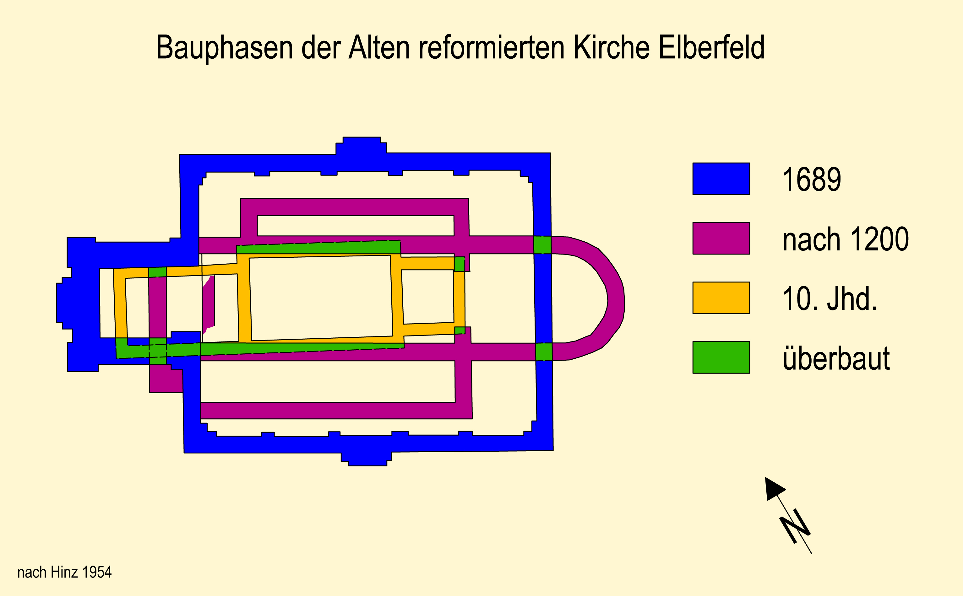 Reformation Church Elberfeld; Construction phases after Hinz 1954.